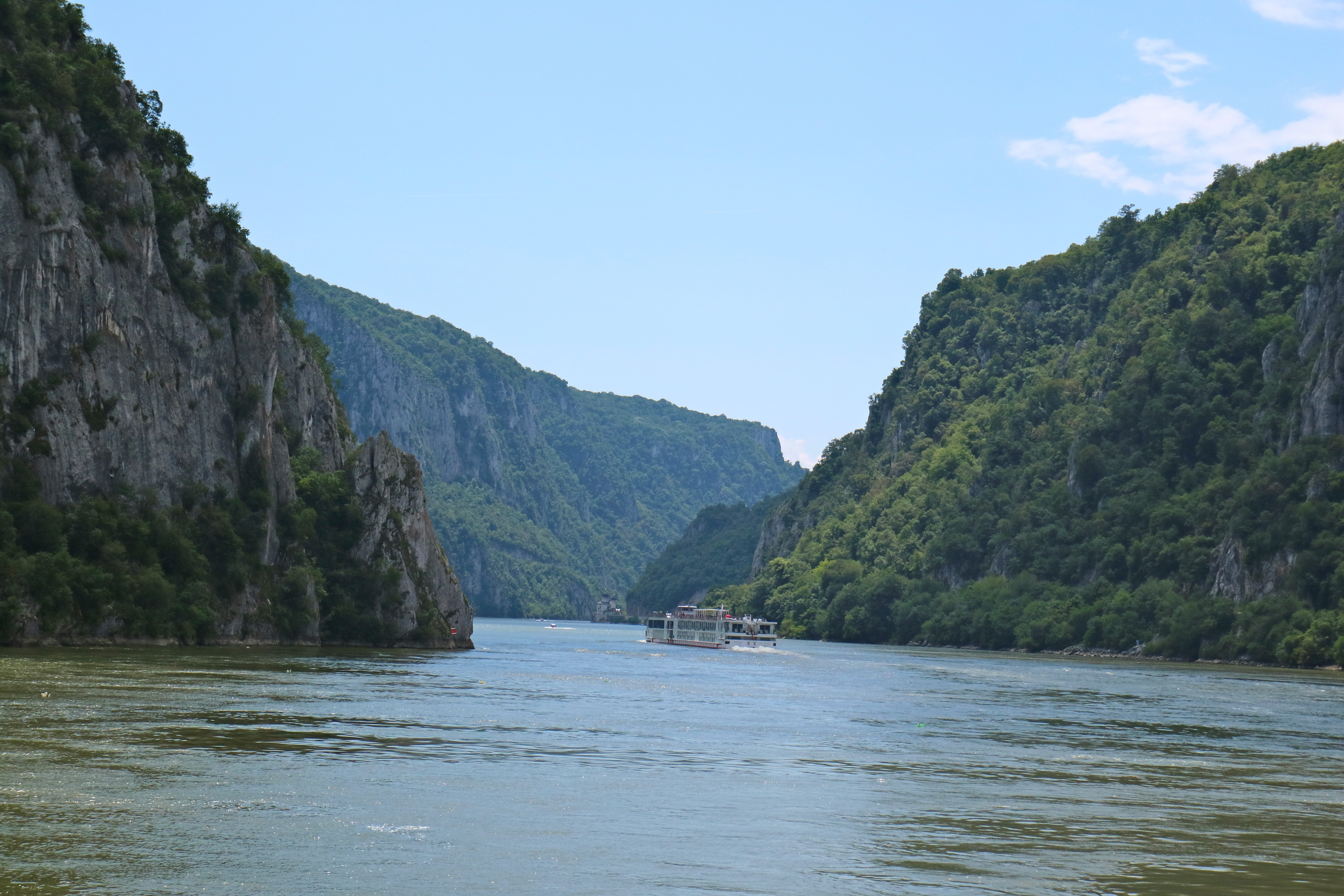 Most narrow point of the Danube on Iron Gates